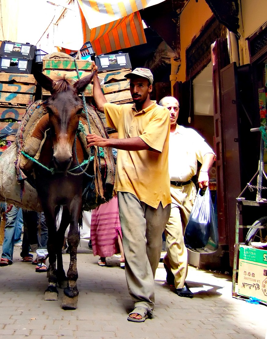 A mule weighed down with goods in the medina (Fes, Morocco). Fuji F11 Camera at ISO 200.